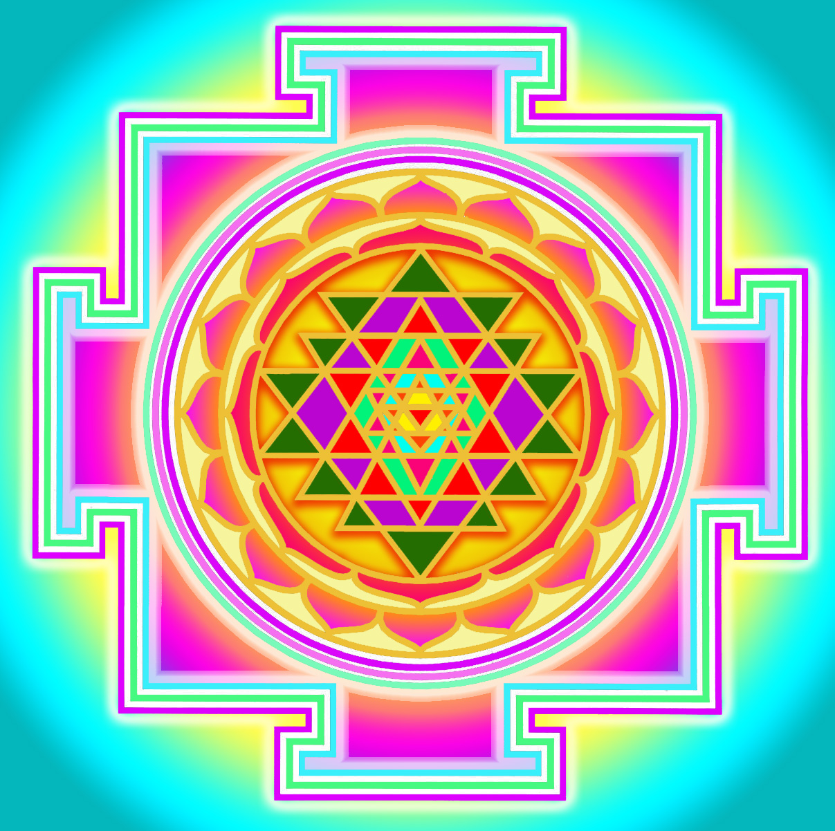 Tipura Sundari yantra or the Shri yantra